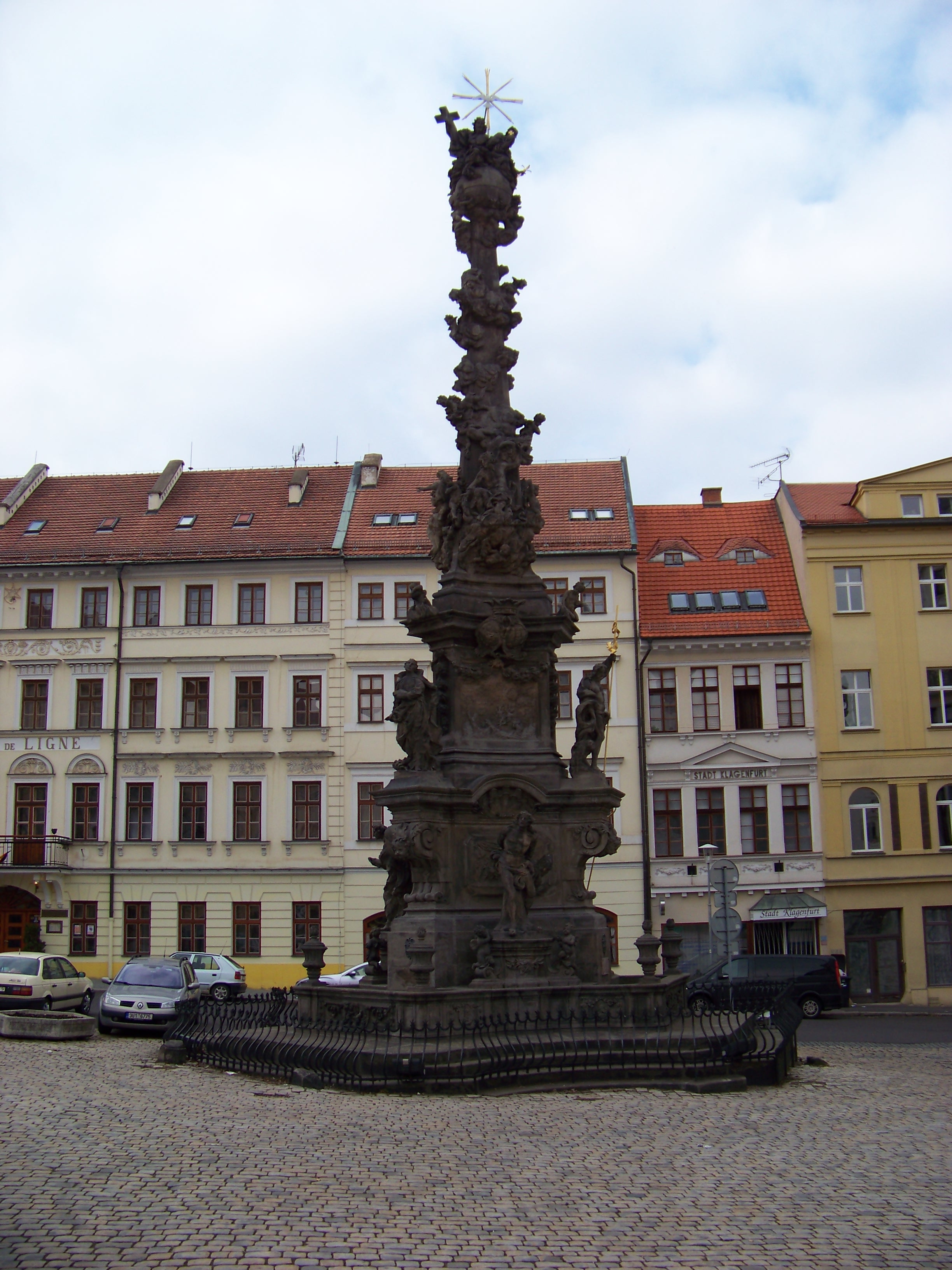 Teplice, Teplice District, Ústí nad Labem Region, the Czech Republic. Zámecké Square, Holy Trinity column. - OpenStreetMap(Info)